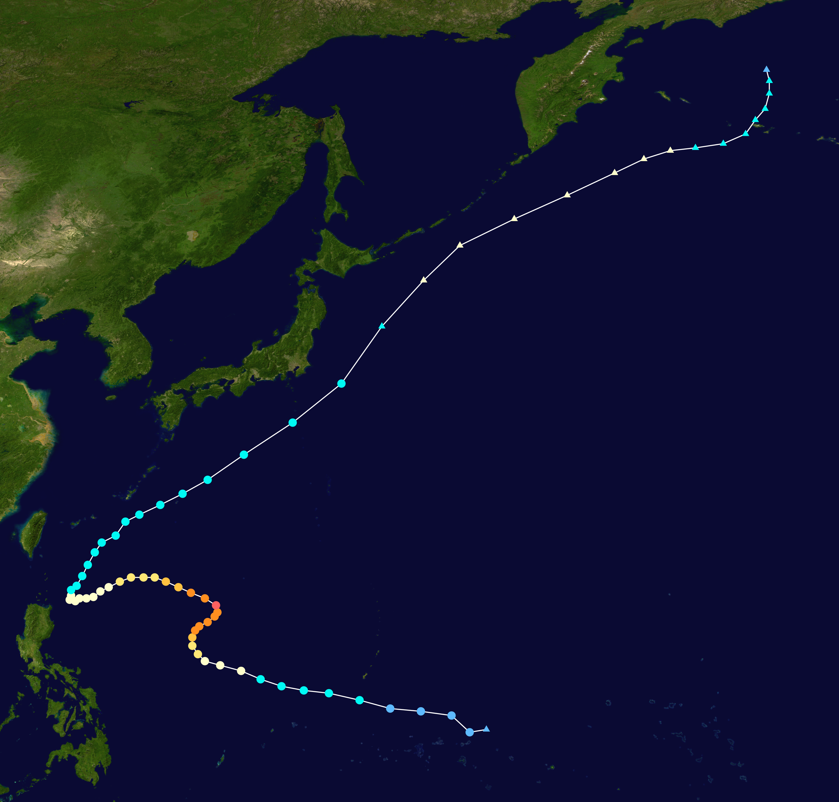 Track map of Typhoon Lupit of the 2009 Pacific typhoon season. The points show the location of the storm at 6-hour intervals. The colour represents the storm's maximum sustained wind speeds as classified in the Saffir–Simpson scale (see below), and the shape of the data points represent the nature of the storm, according to the legend below. Saffir–Simpson scale Tropical depression≤38 mph≤62 km/h Category 3111–129 mph178–208 km/h Tropical storm39–73 mph63–118 km/h Category 4130–156 mph209–251 km/h Category 174–95 mph119–153 km/h Category 5≥157 mph≥252 km/h Category 296–110 mph154–177 km/h Unknown Storm type Tropical cyclone Subtropical cyclone Extratropical cyclone / Remnant low / Tropical disturbance / Monsoon depression